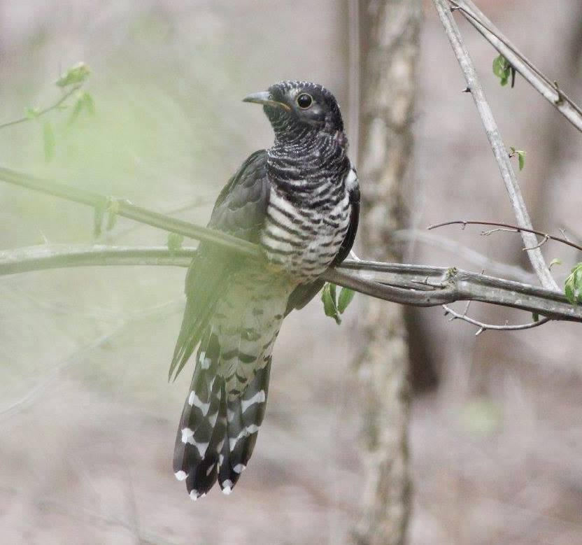 An immature Red-chested cuckoo at uMkhuze Game Reserve, KwaZulu-Natal, South Africa